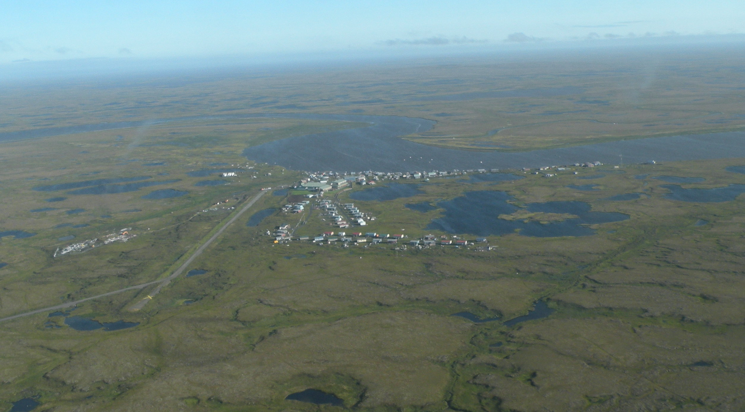 Flying into Chefornak